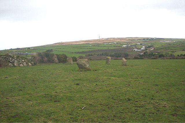 This is the Nine Maidens Stone Circle. Only half of the circle can be seen, while the other stones have been incorporated into the stone hedge.